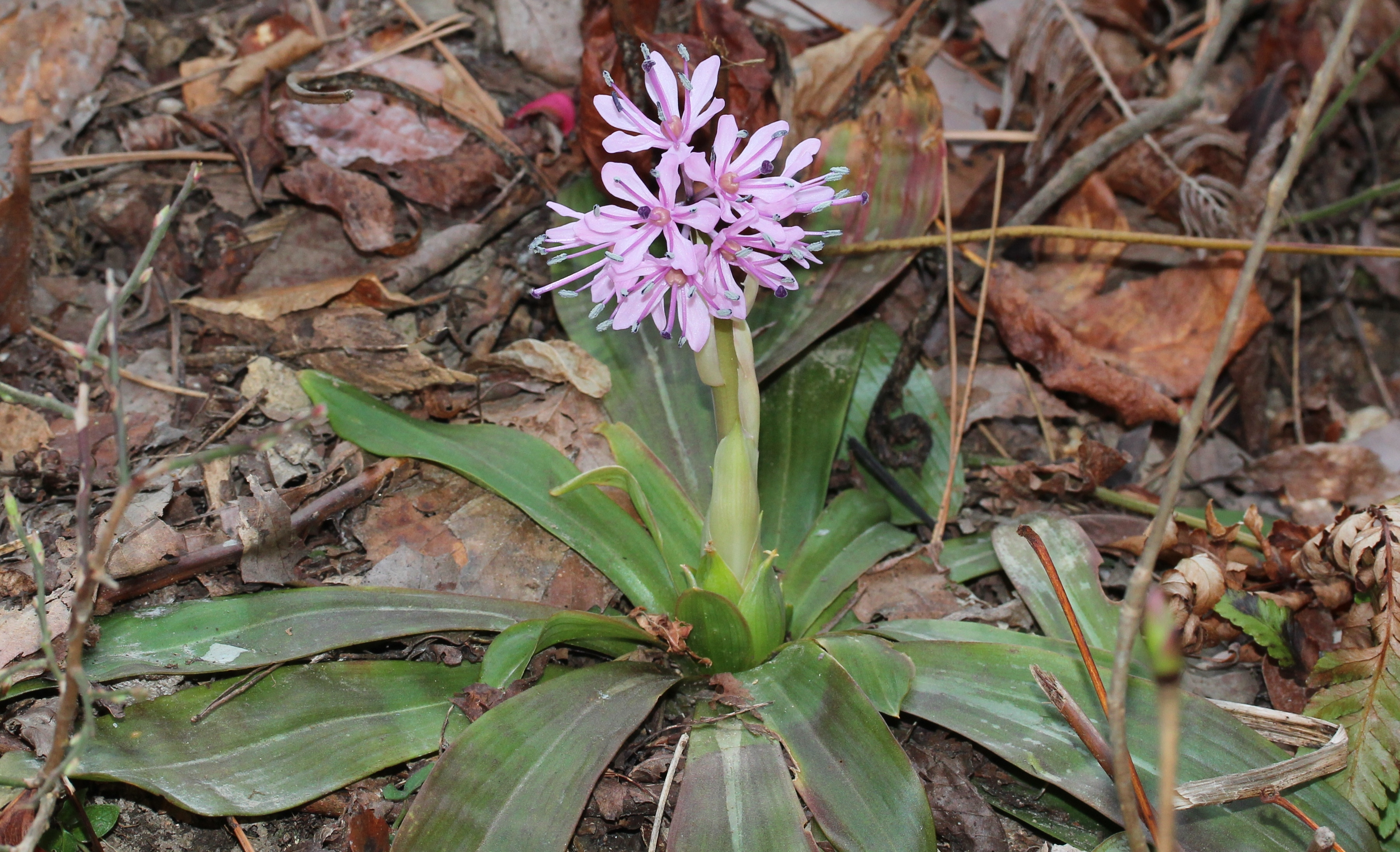 Heloniopsis orientalis in Kasugai Aichi, Japan.